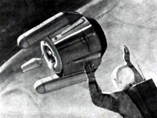 Project Deimos: MEM (Mars Excursion Module) and Rombus docking.